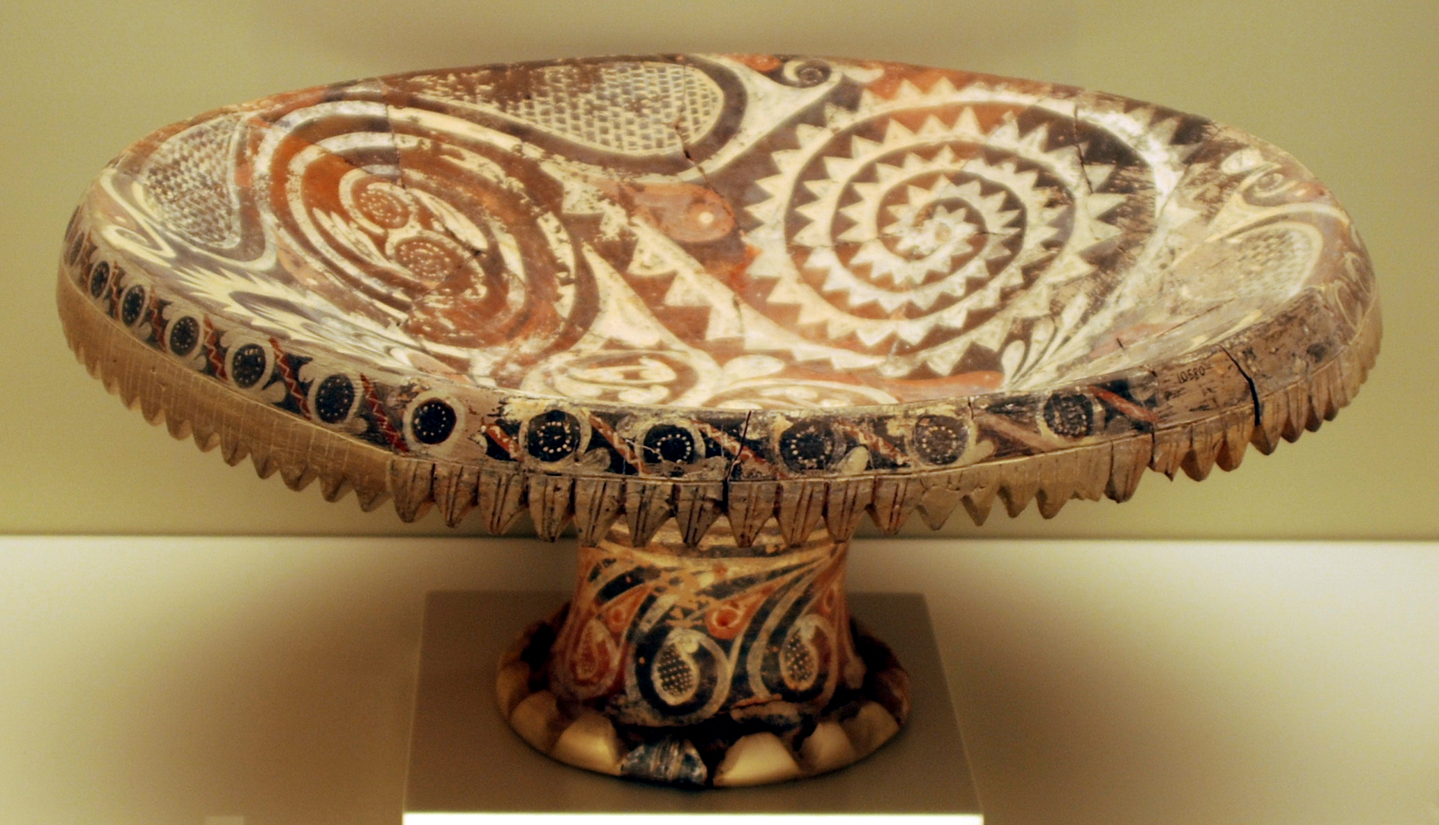 Minoan Ceramic. Archaeological Museum of Herakleion.